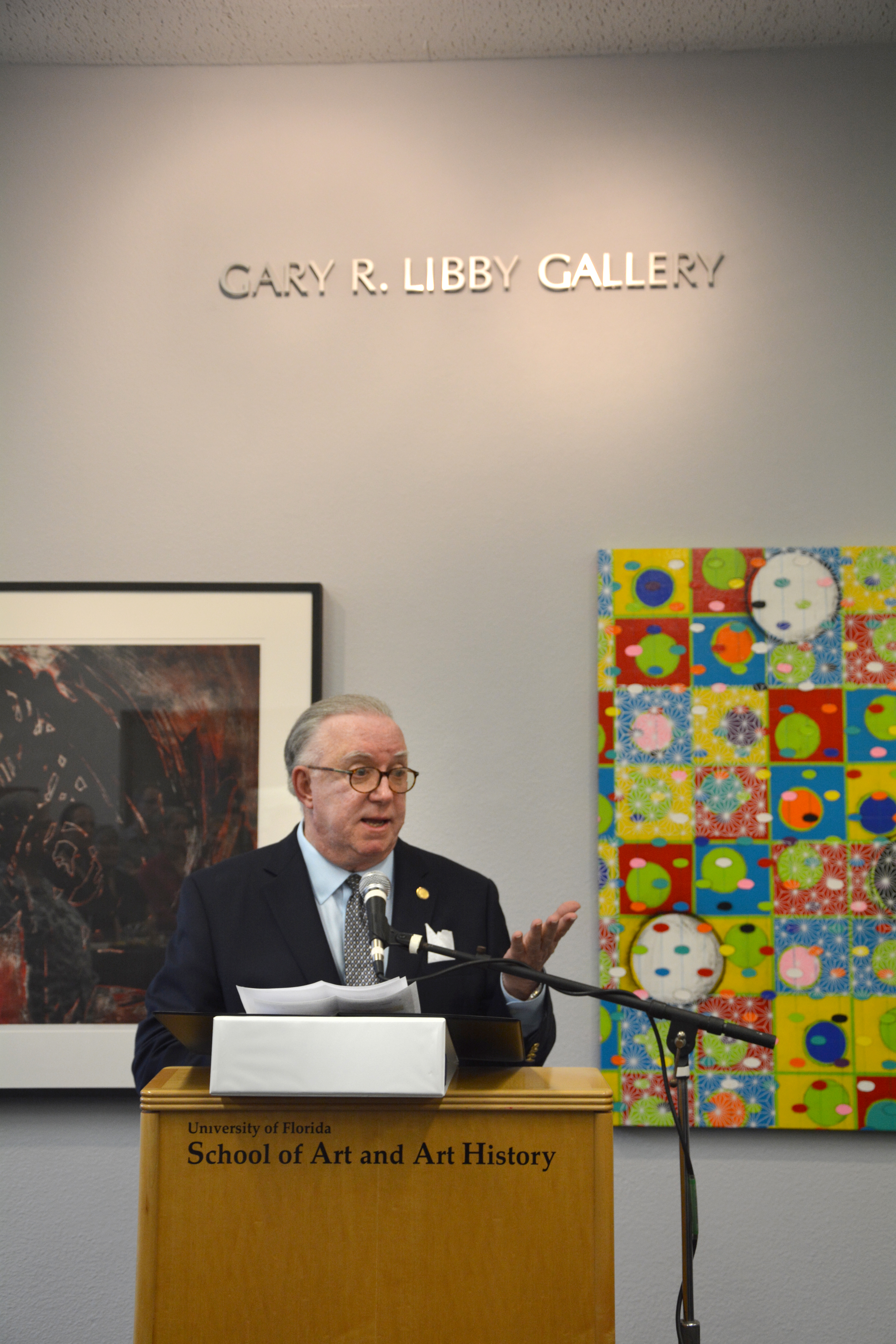 Gary Russell Libby at dedication of the Gary R. Libby Gallery located in the UF School of Art and Art History